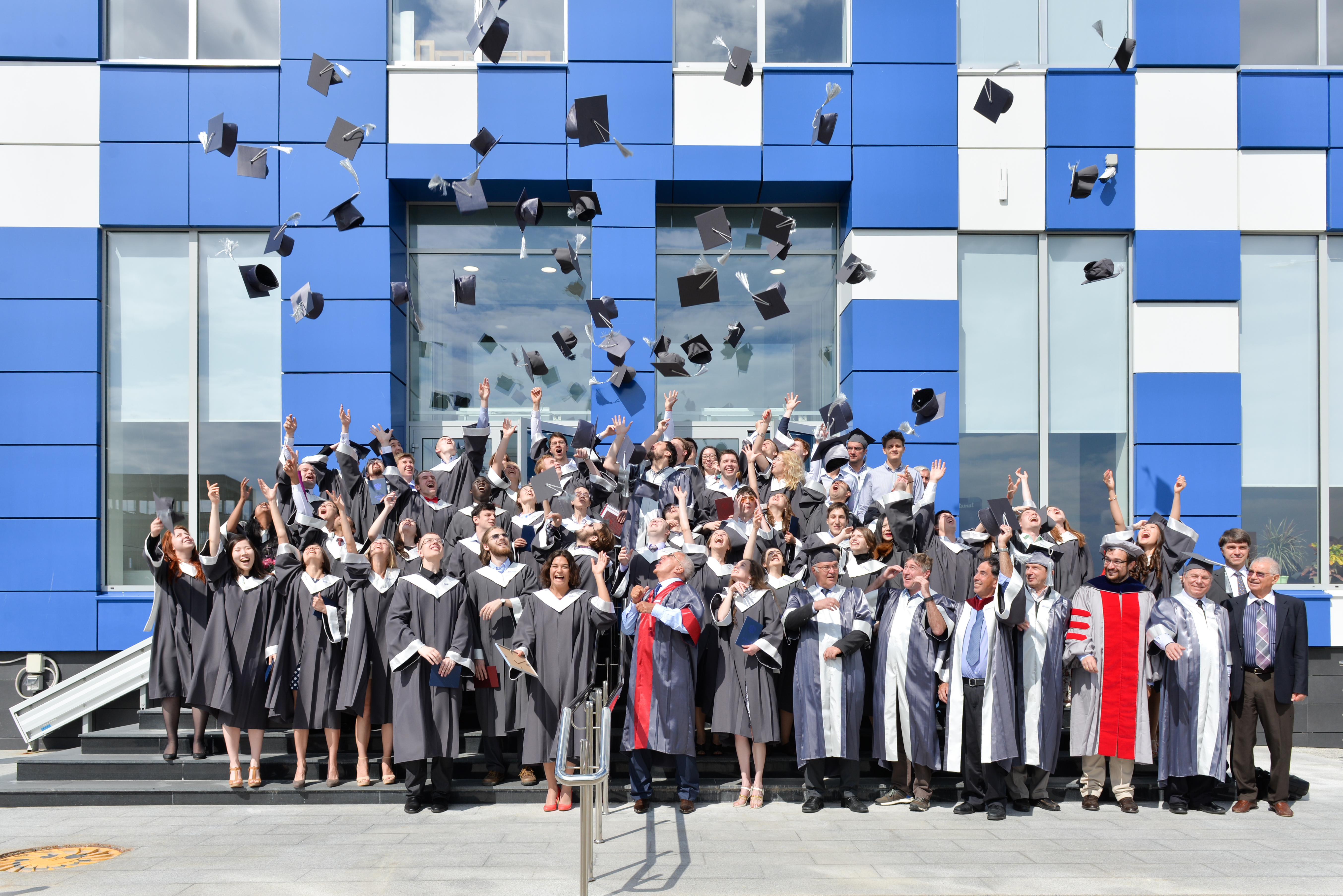 Graduation ceremony of students of the Skolkovo Institute of Science and Technology